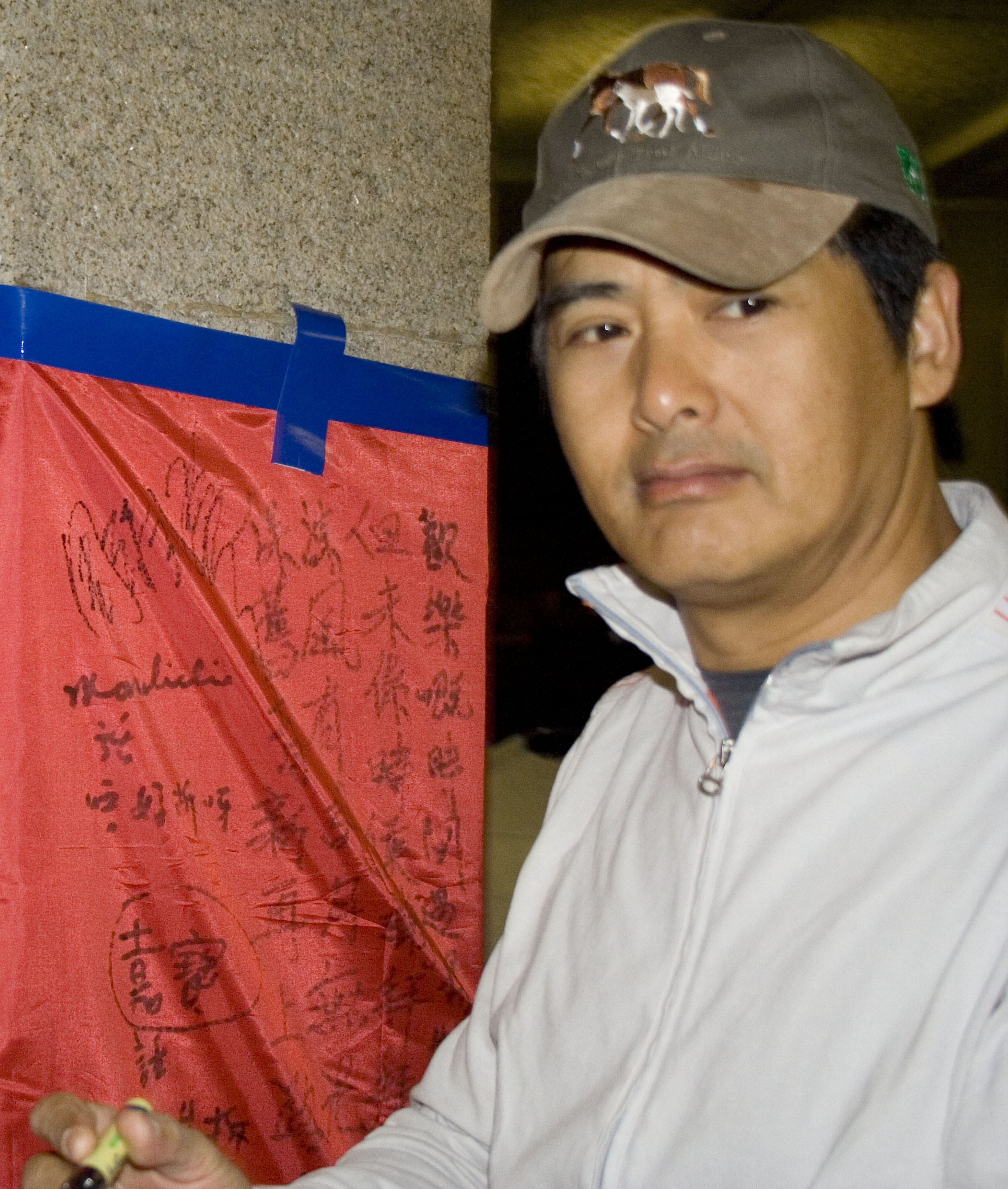 Chow Yun Fat signing his name to a banner in support of preserving the Queens Pier at Edinburgh Place in Hong Kong that was later destroyed in August 2007.